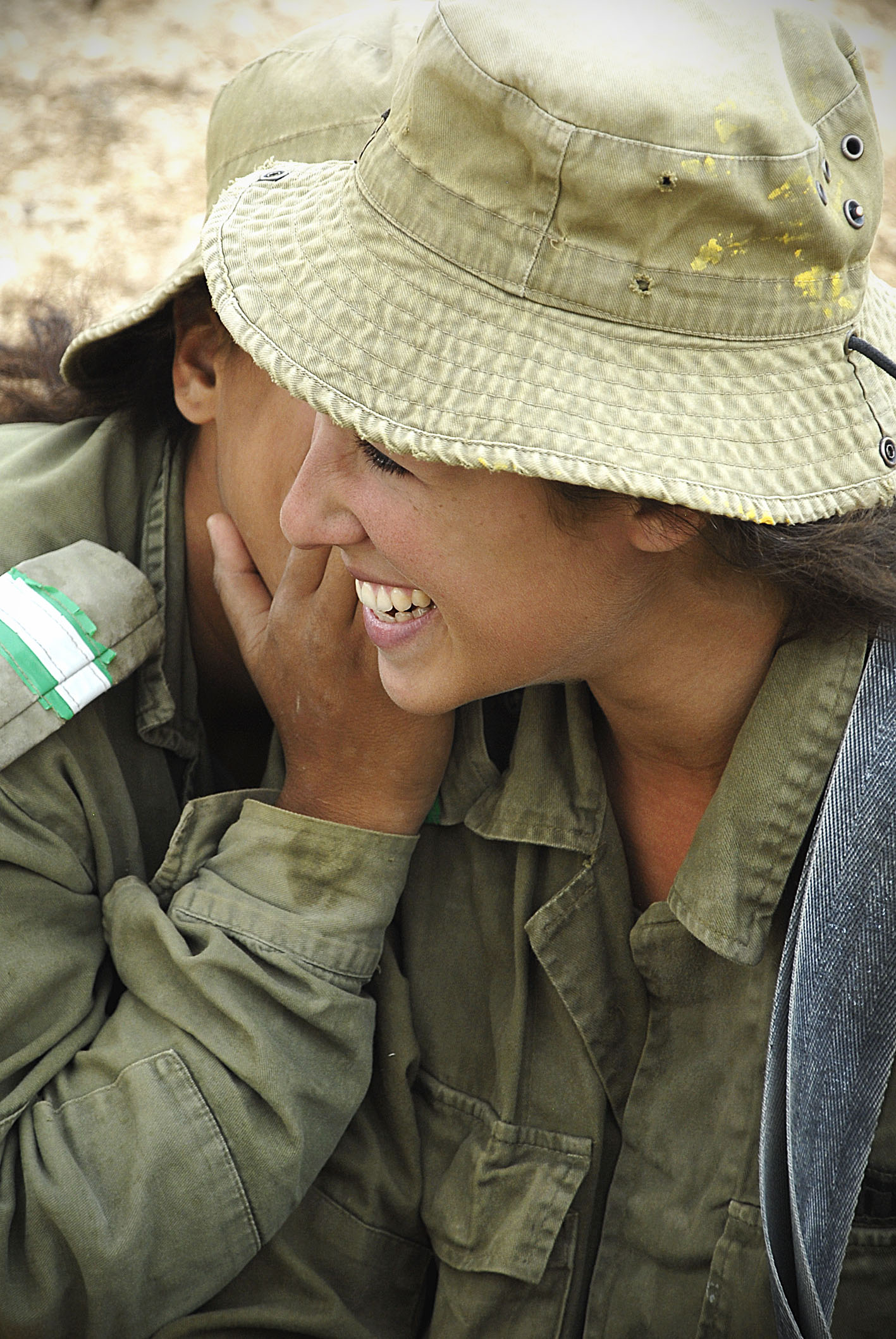 November 16, 2010. The Infantry Instructors Course includes a "Field Week" during which soldiers experience drills, live fire, combat exercises, sleeping out in the open, and other aspects of operational activity. The course is held in the Infantry Training School in southern Israel and is attended mostly by girls. Featured as "Photo of the Day" on January 25, 2011. Photo by Iris Lainer, IDF Spokesperson's Film Unit.